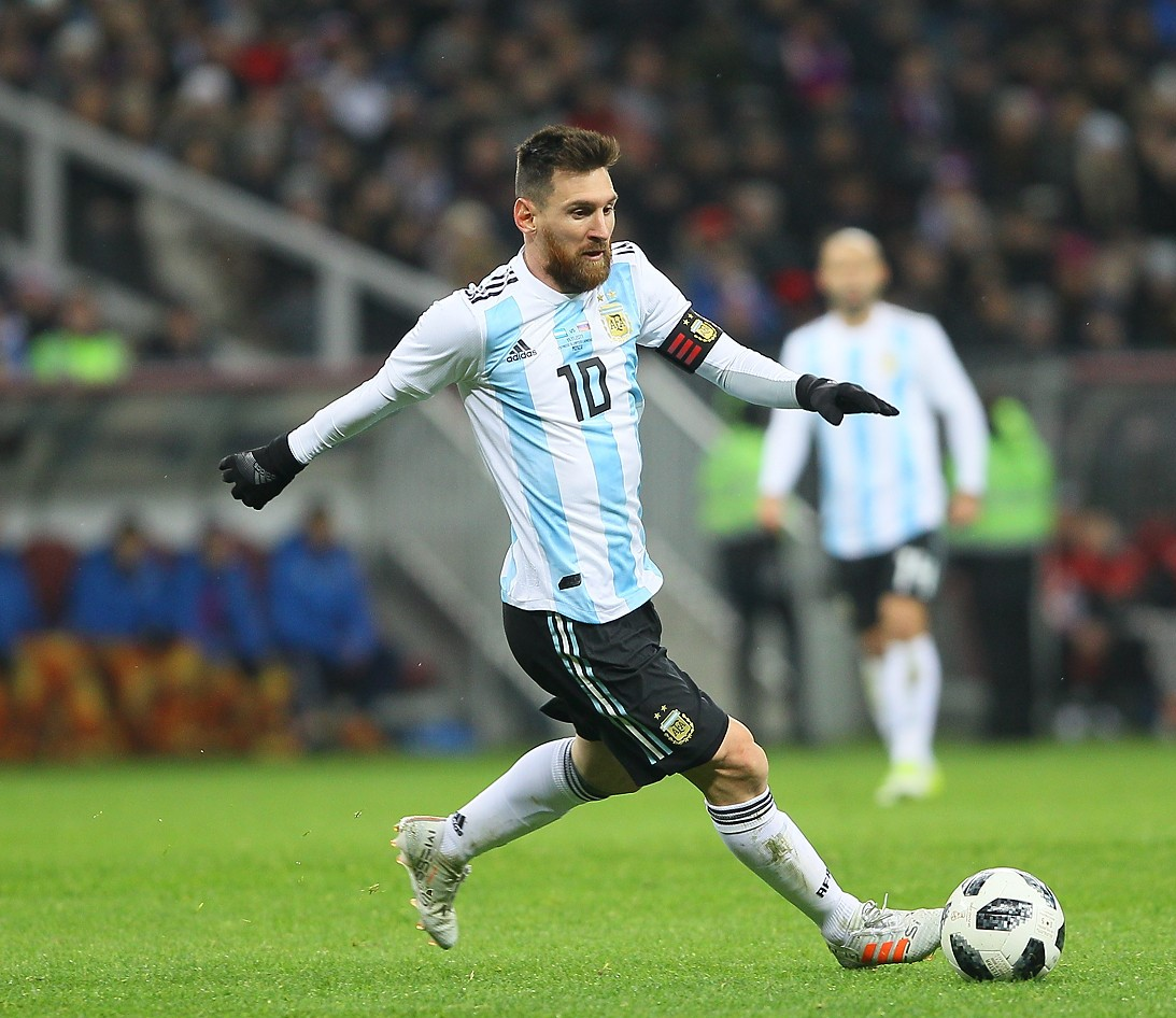 Lionel Messi